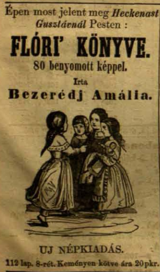 Advertisement (Bezerédj Amália's work)